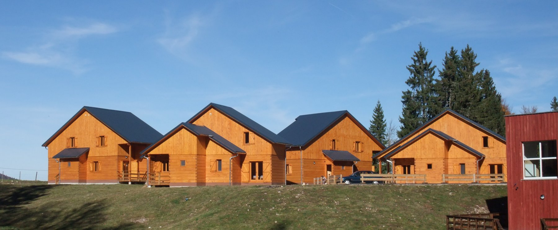 House made of wood, in Prémanon